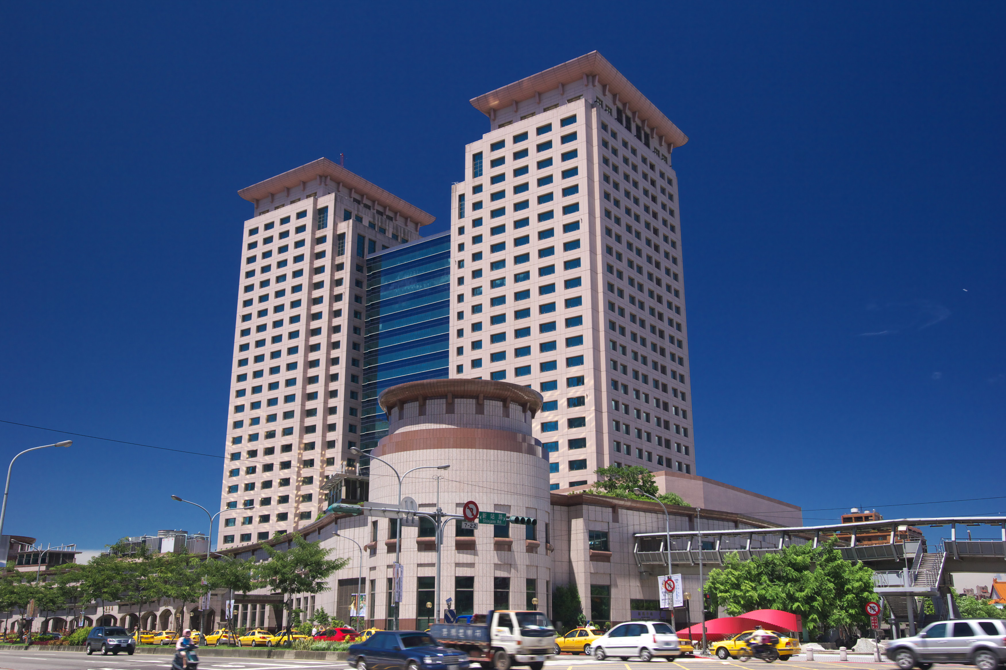 Banciao Station in New Taipei City, Taiwan